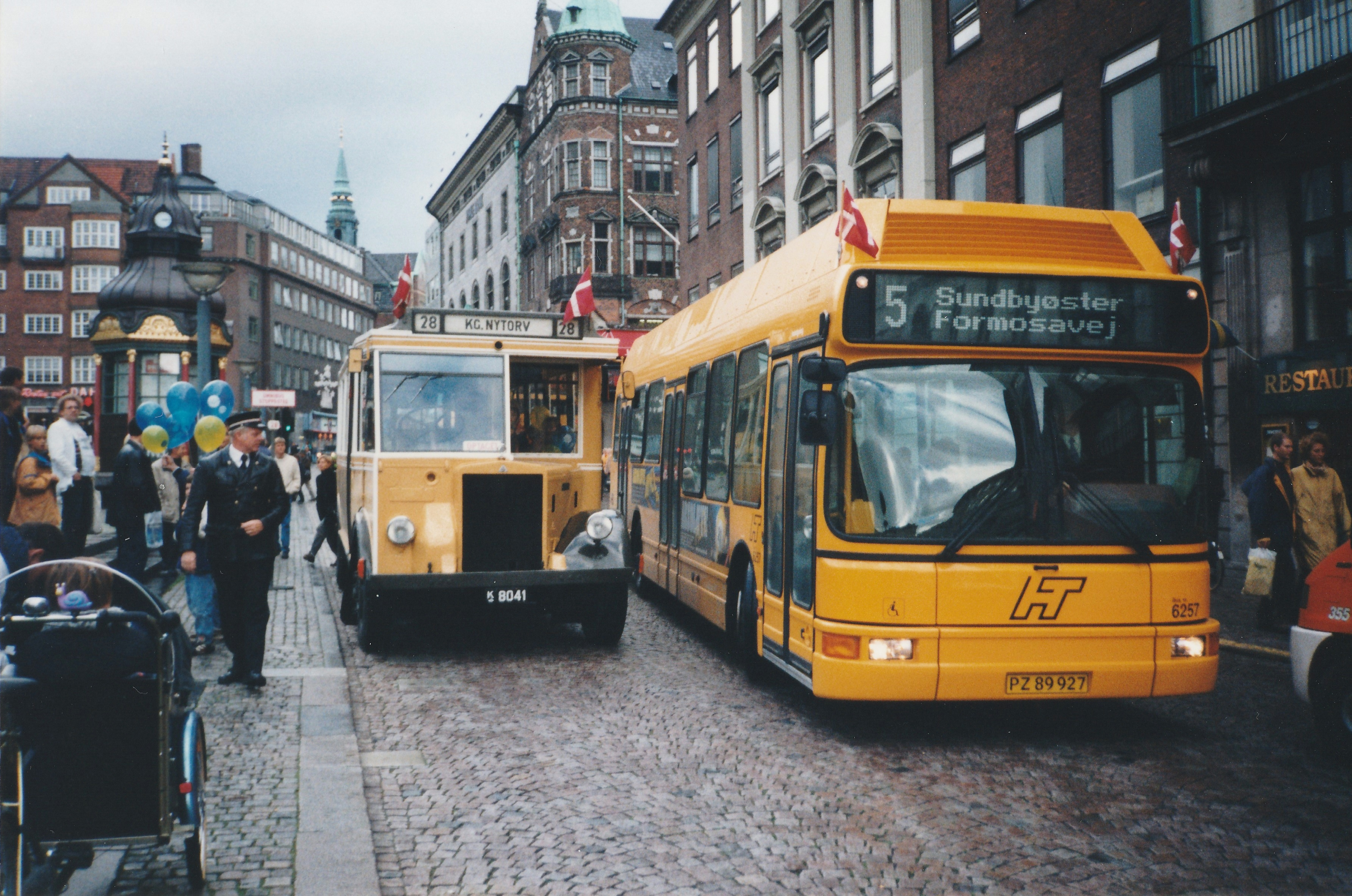 The transport authority Hovedstadsområdets Trafikselskab (HT) celebrated their 25th anniversary at Nytorv in Copenhagen. KS 41 from 1933 of HT Museum took passengers along for a roundtrip. During a break at Nytorv it was passed by the regular Combus 6257 from 1999 on line 5.